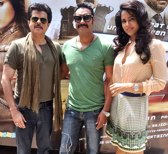 Anil Kapoor, Ajay Devgan and Sameera Reddy at promotions of their film 'Tezz'